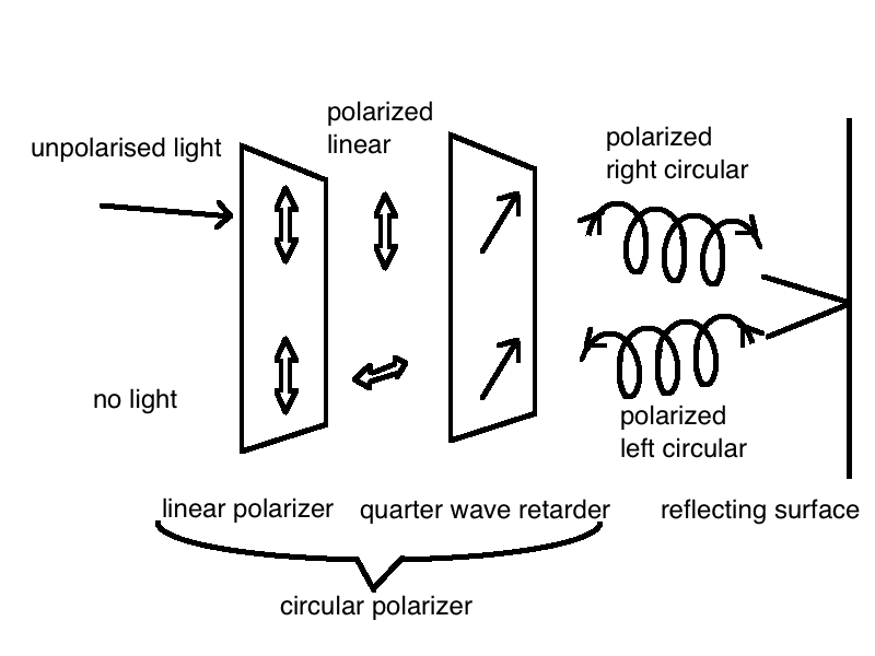 This diagram illustrates how a circular polarizer acts as an anti-reflective coating